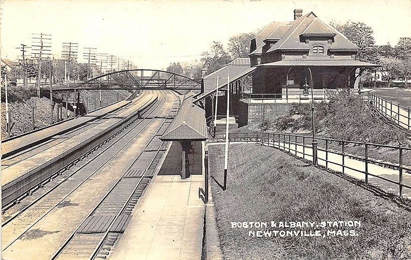 Early postcard of Newtonville station